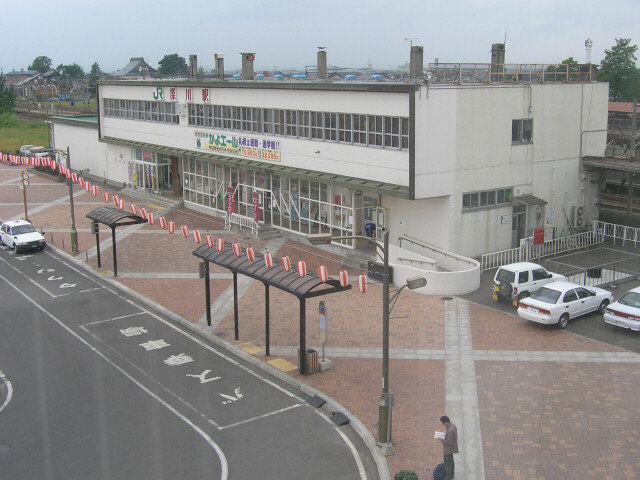 Fukagawa Station on the Hakodate Main Line in Japan